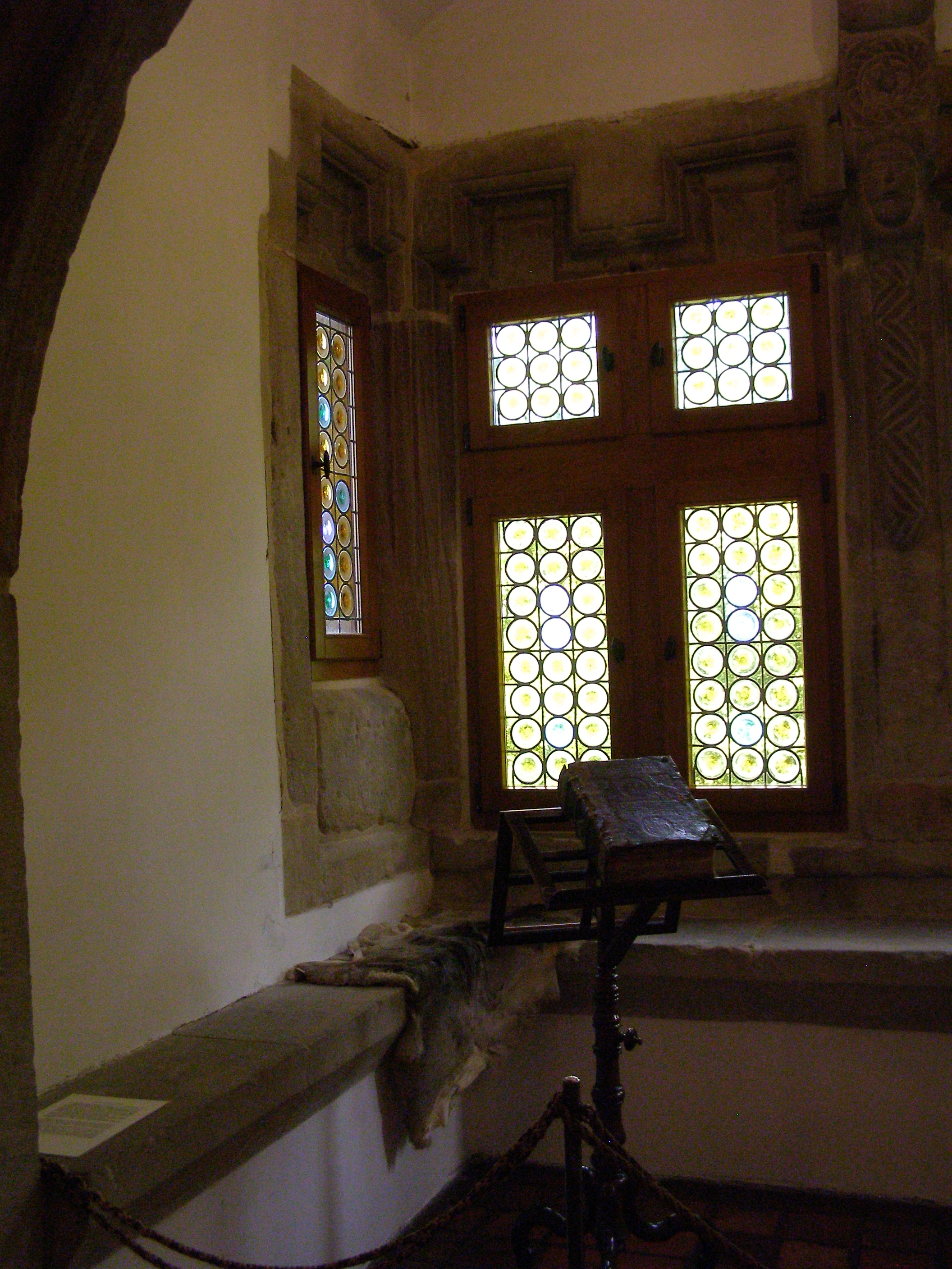 Dębno - a recess with the 16th century Jakub Wujek Bible in the Chapel of the castle